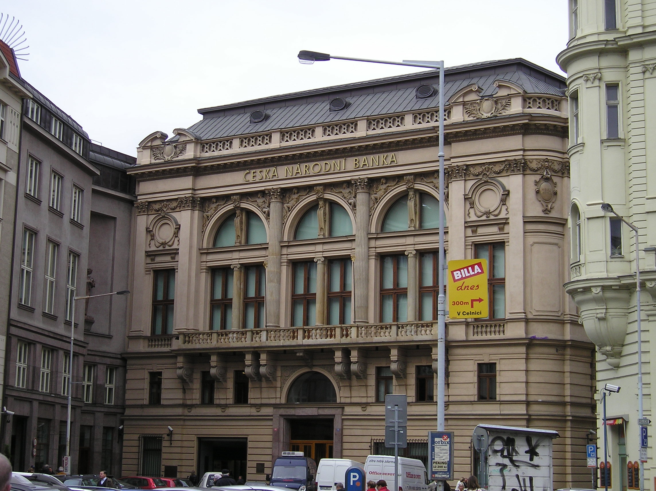 Prague - Česká národní banka building